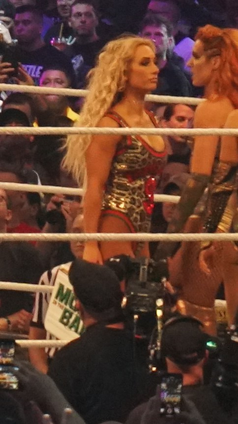 Divas in the ring for a battle royal at WrestleMania 34.